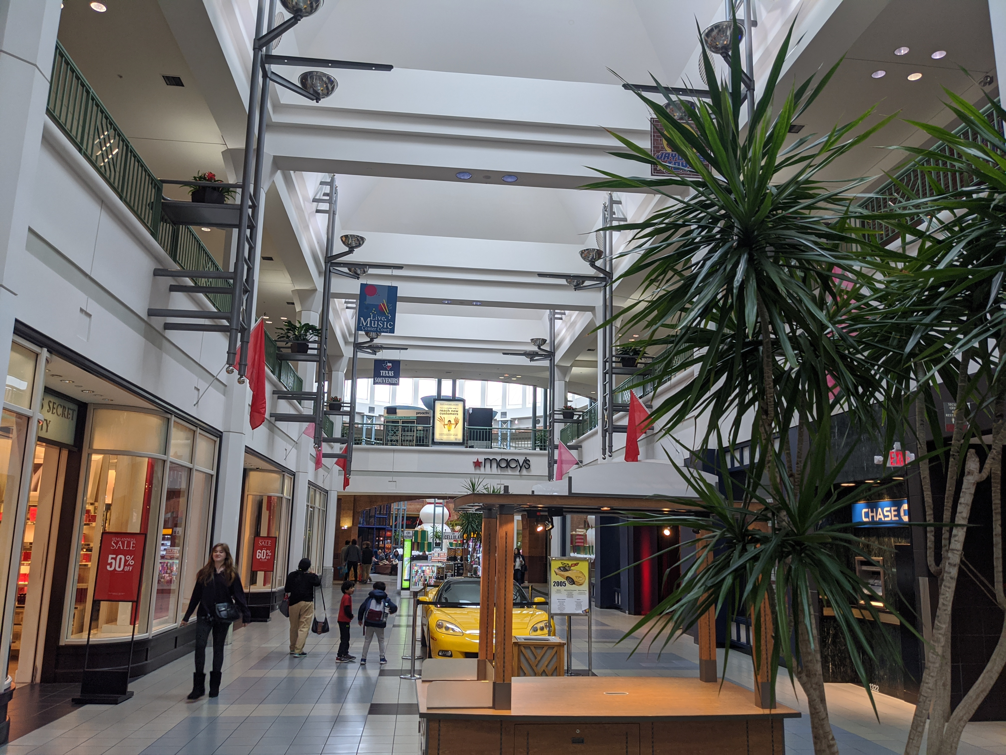 The east concourse facing the atrium court